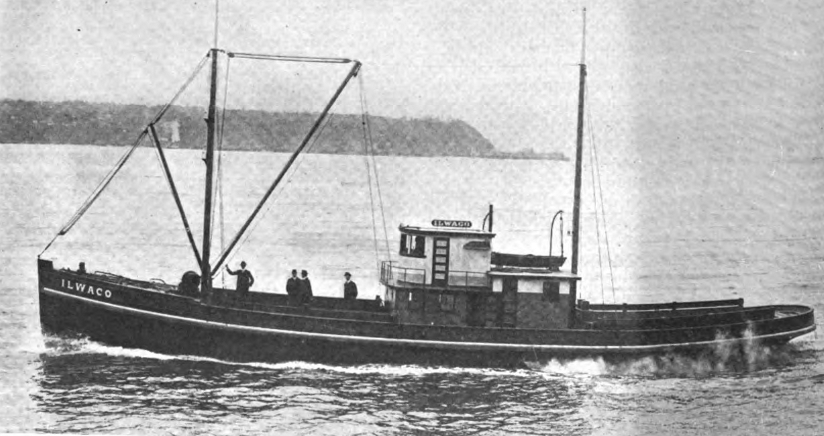 Original caption: The Puget Sound Motor Cannery Tender Ilwaco This vessel is 96ft. long and 18ft. of beam and powered with an 85hp. Frisco Standard engine. Last year she maintained a 24 hour round trip schedule between Everett Washington and the Fraser River and other points including Cape Flattery for 142 days straight running. Operating day and night, and was not laid up for repairs during the season.